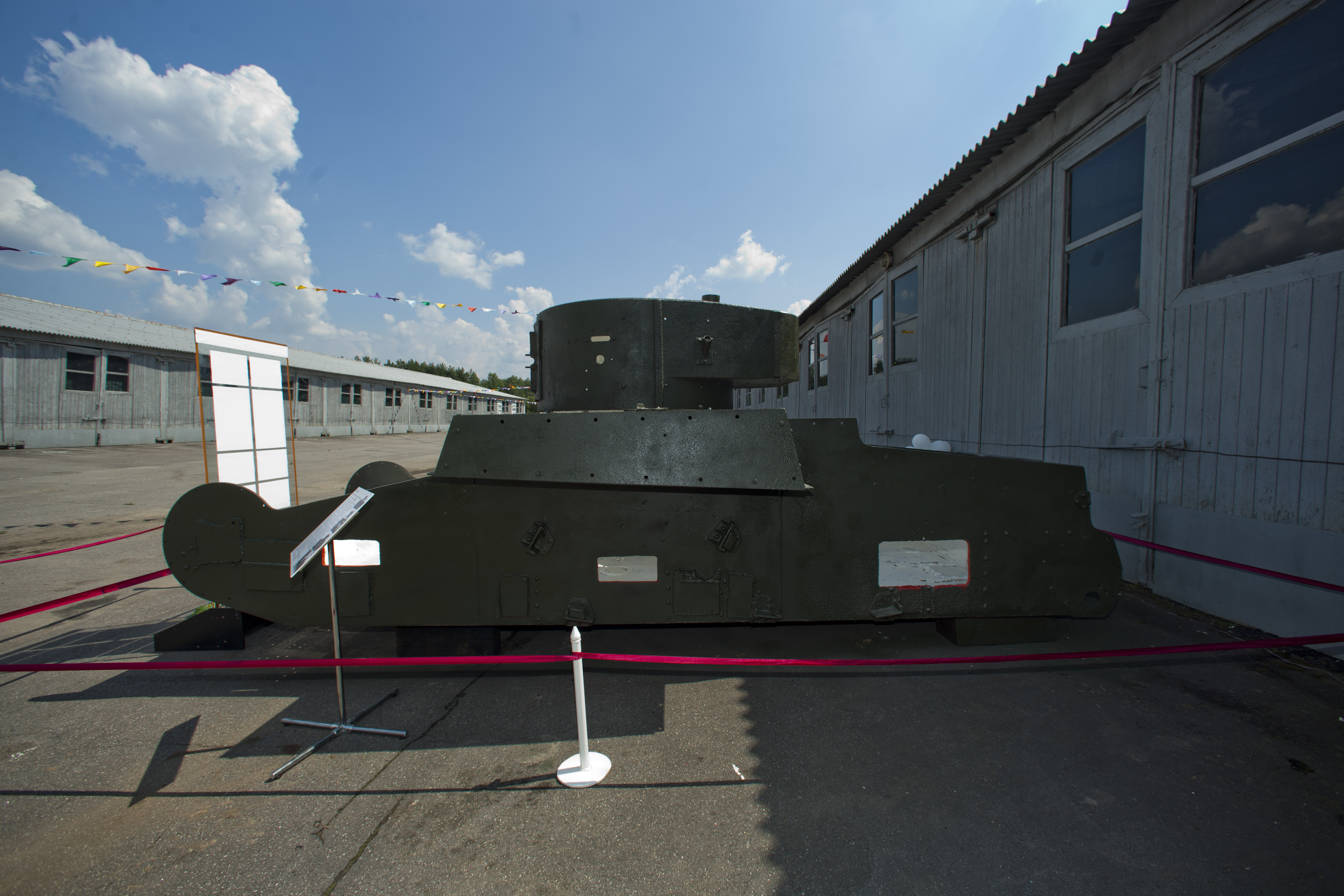 T-46-1, Soviet vehicle in Kubinka tank museum